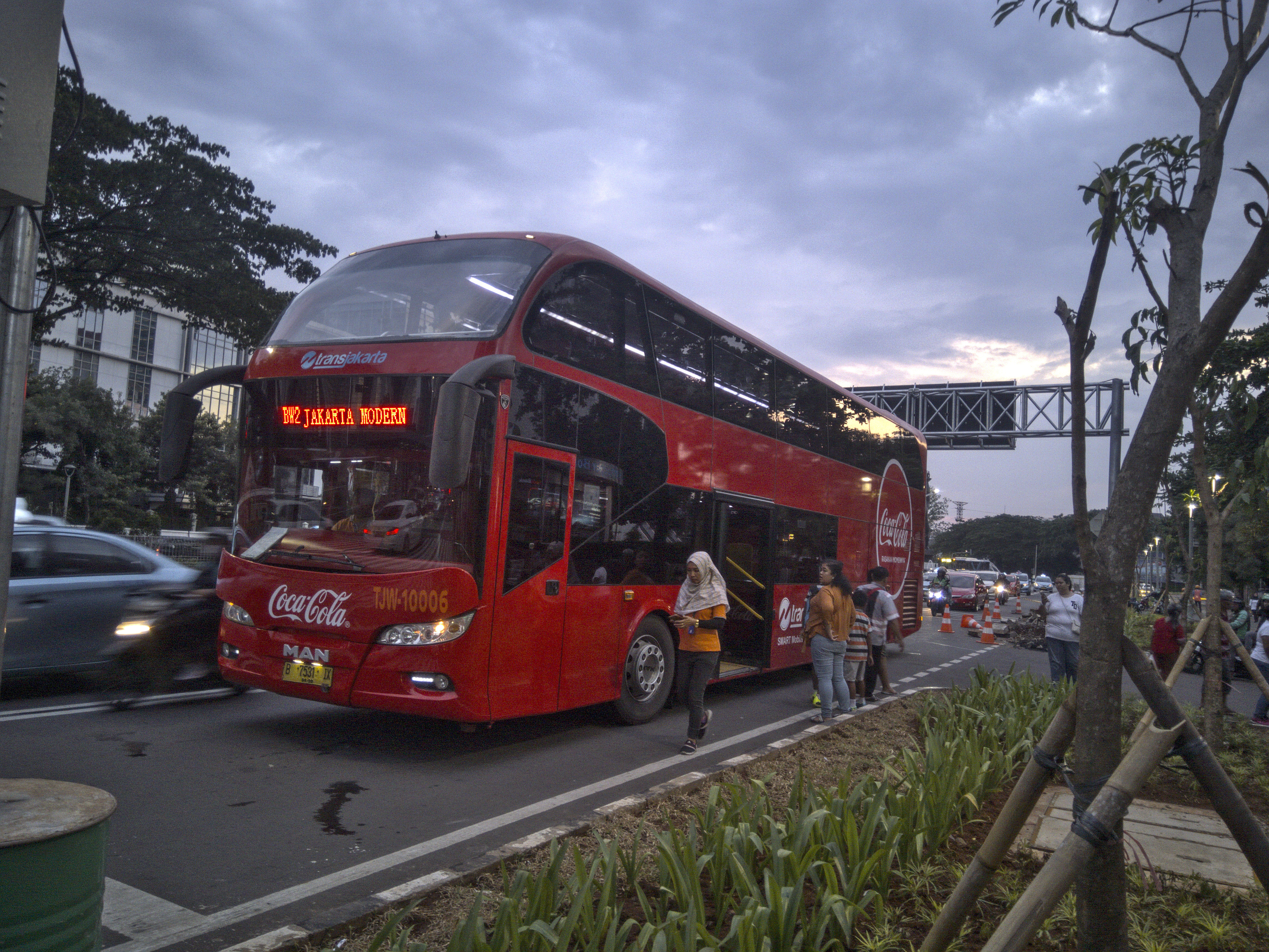 TransJakarta TJW-10006, CSR from Coca-Cola Amatil Indonesia